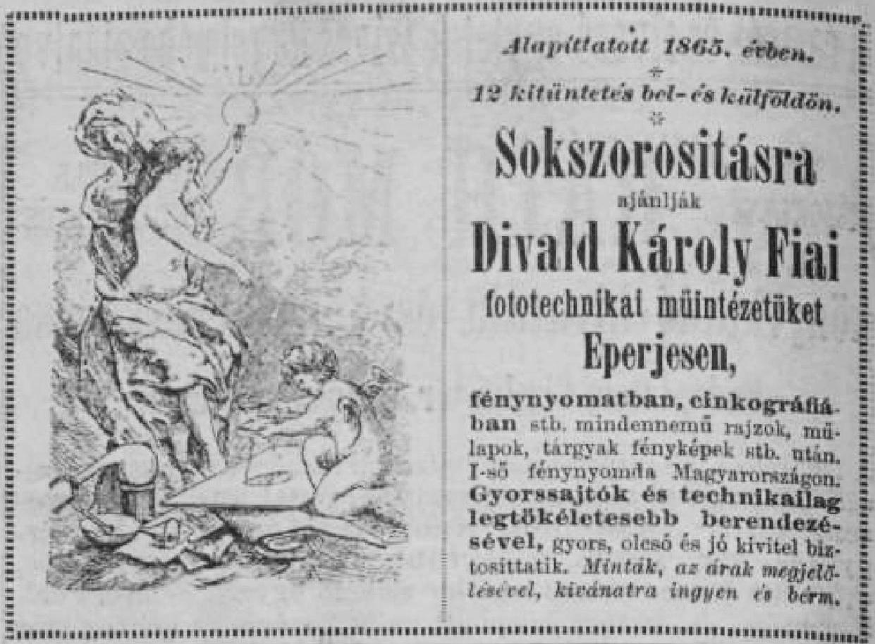 Advertisement of the photography shop of Károly Divald in Eperjes (Presov)